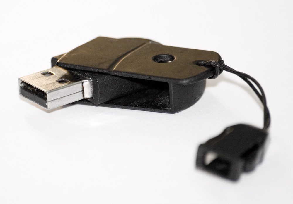 Pretec i-Disk Wave USB 2.0 Flash Drive